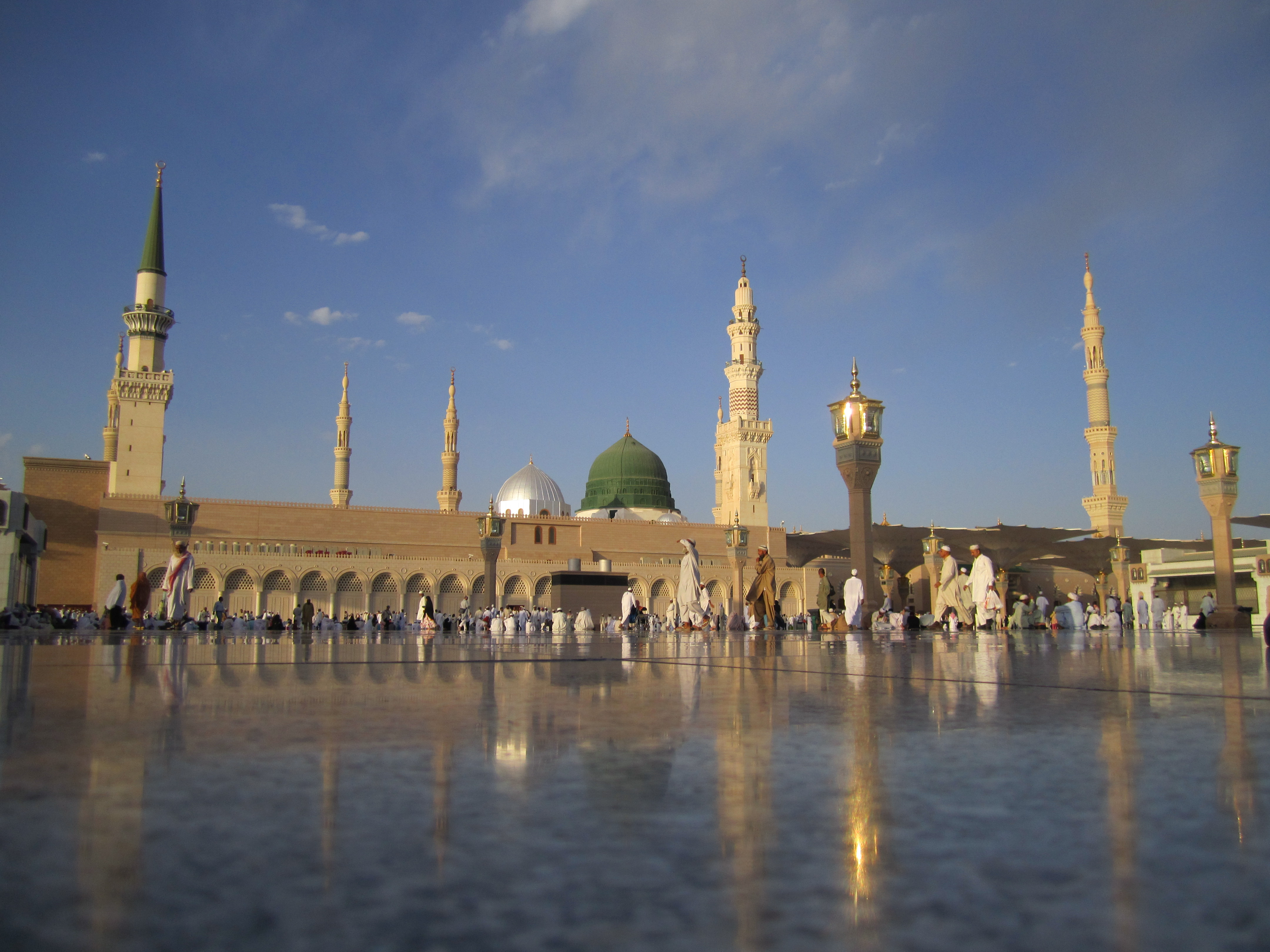 The Prophet's Mosque.